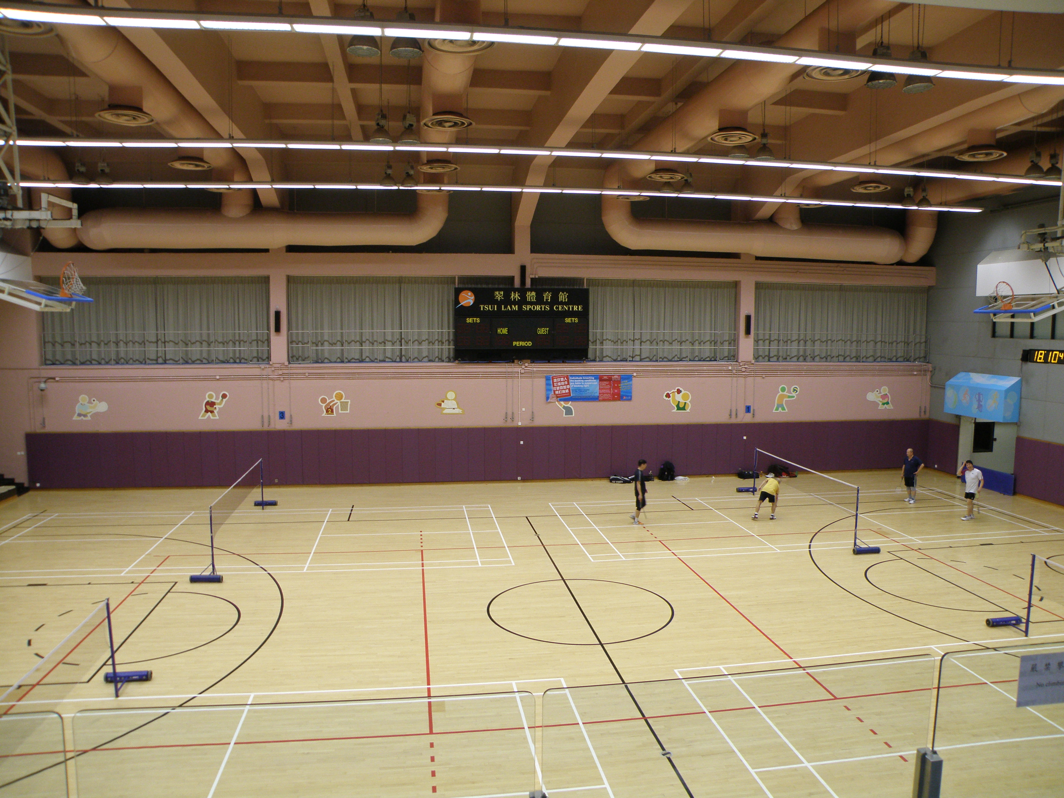 Tsui Lam Sport Centre in Tseung Kwan O, Hong Kong.